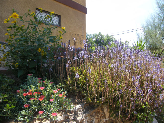 Xeric garden in Israel